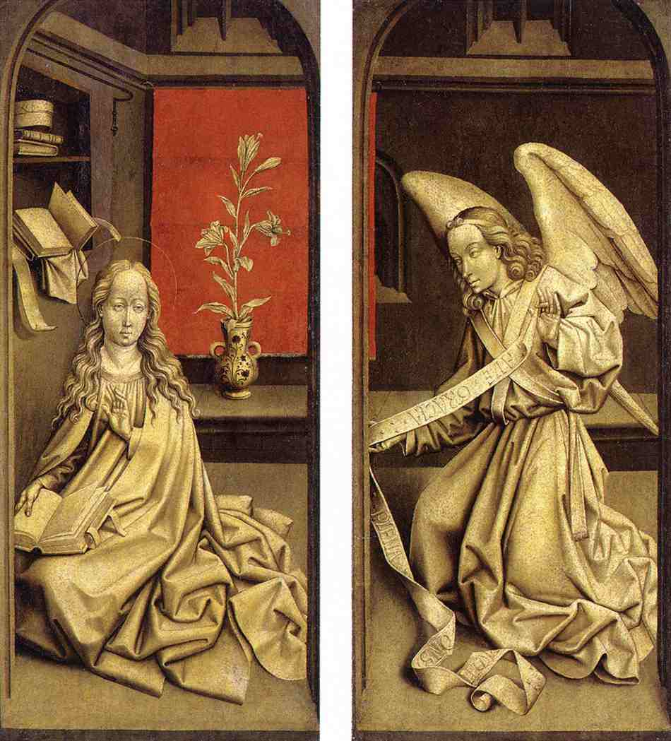 Bladelin Triptych (Exterior)